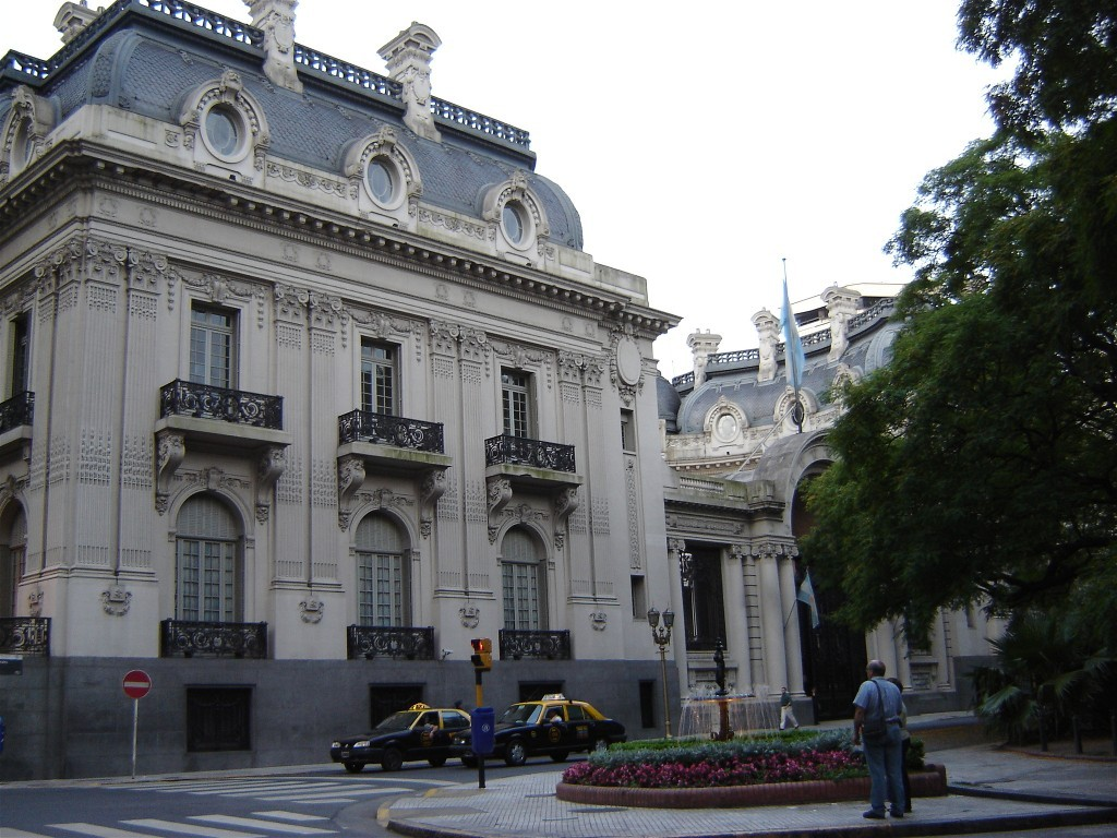 San Martín Palace, the ceremonial annex of the Argentine Foreign Ministry. Buenos Aires